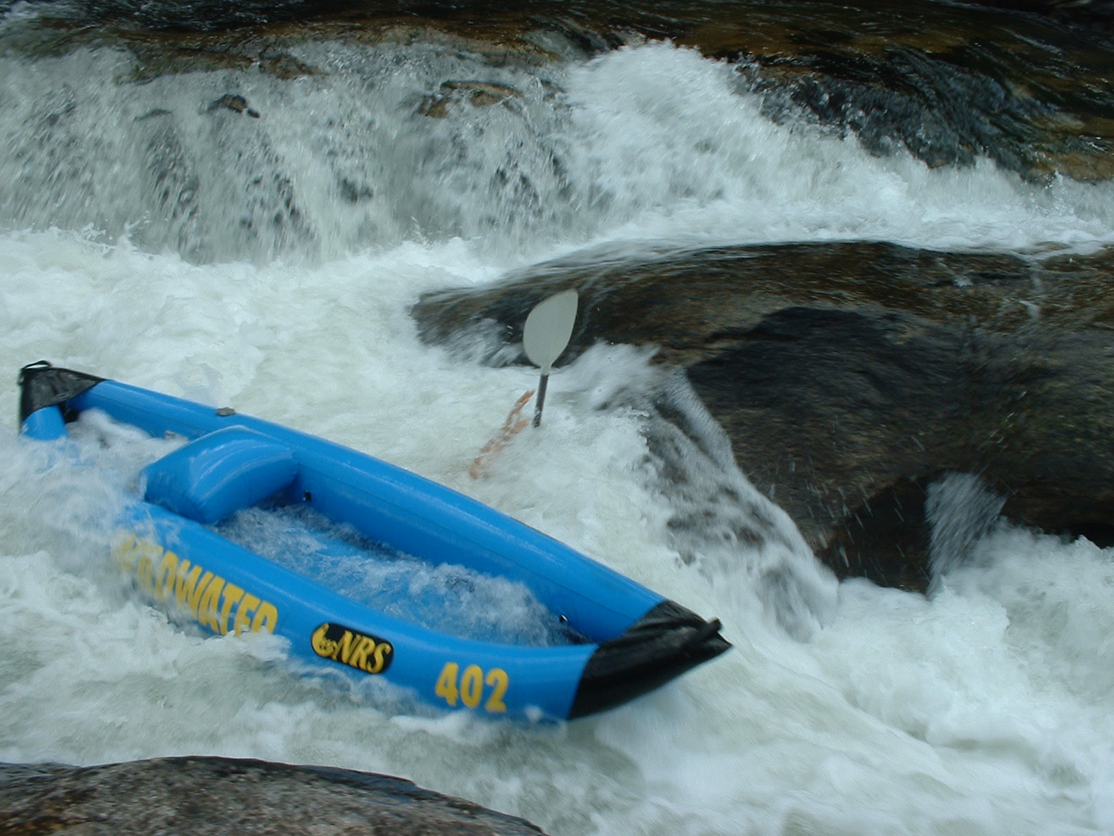 Bulls Sluice rapid on Chatooga River between Georgia and South Carolina, this shows a mishap in an inflatable kayak.